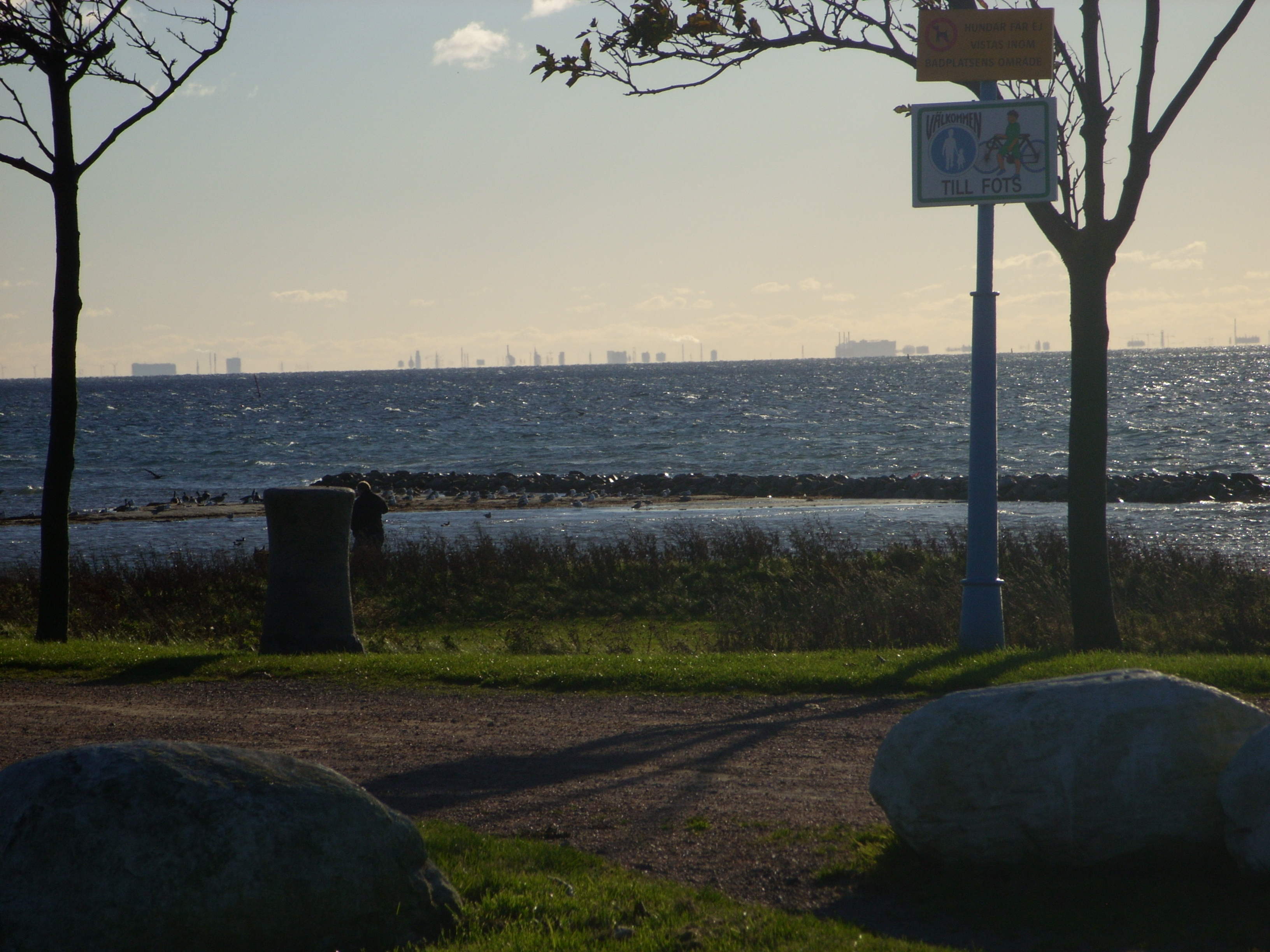 Danish Capital Copenhagen seen from Landskrona, Scania, Sweden